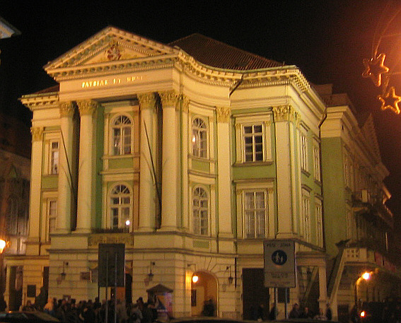 Prague, Theatre of the Estates